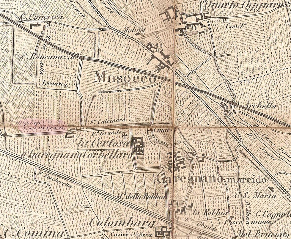 map of Cascina Torchiera (Milan)